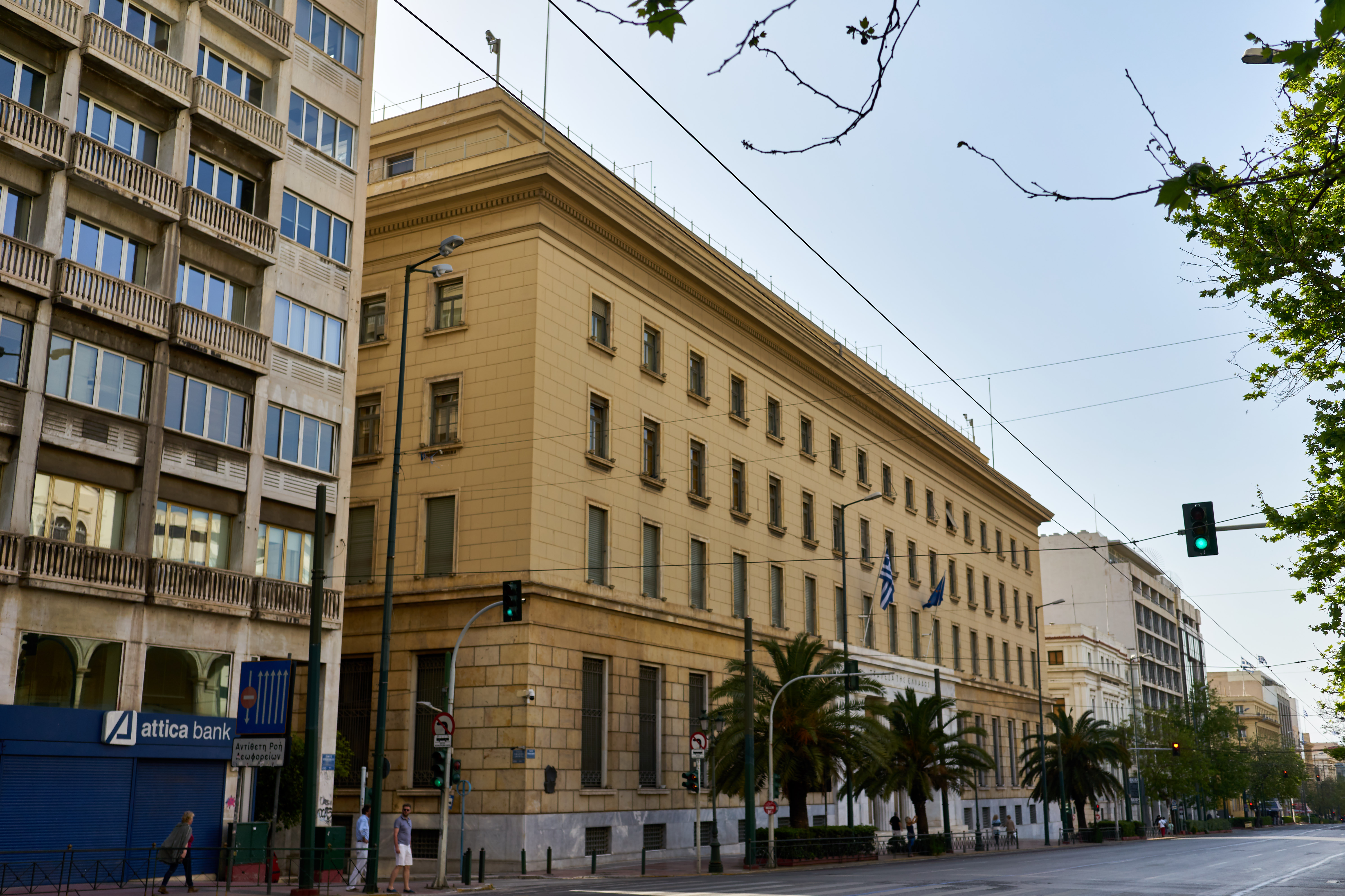 The building of the Bank of Greece on Panepistimiou Street in Athens. Athens, Greece.